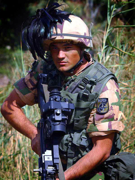 Italian Bersaglier in Nato